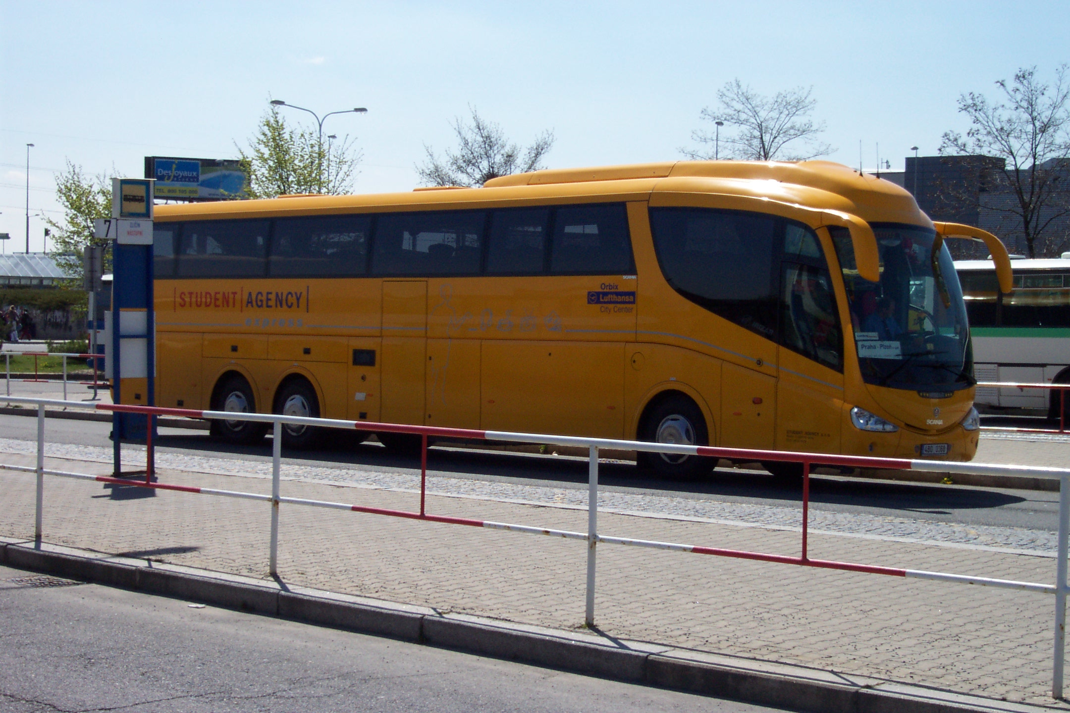 Prague, coach type Scania Irizar PB 6x2 at Zličín, Praha. Student Agency operator.